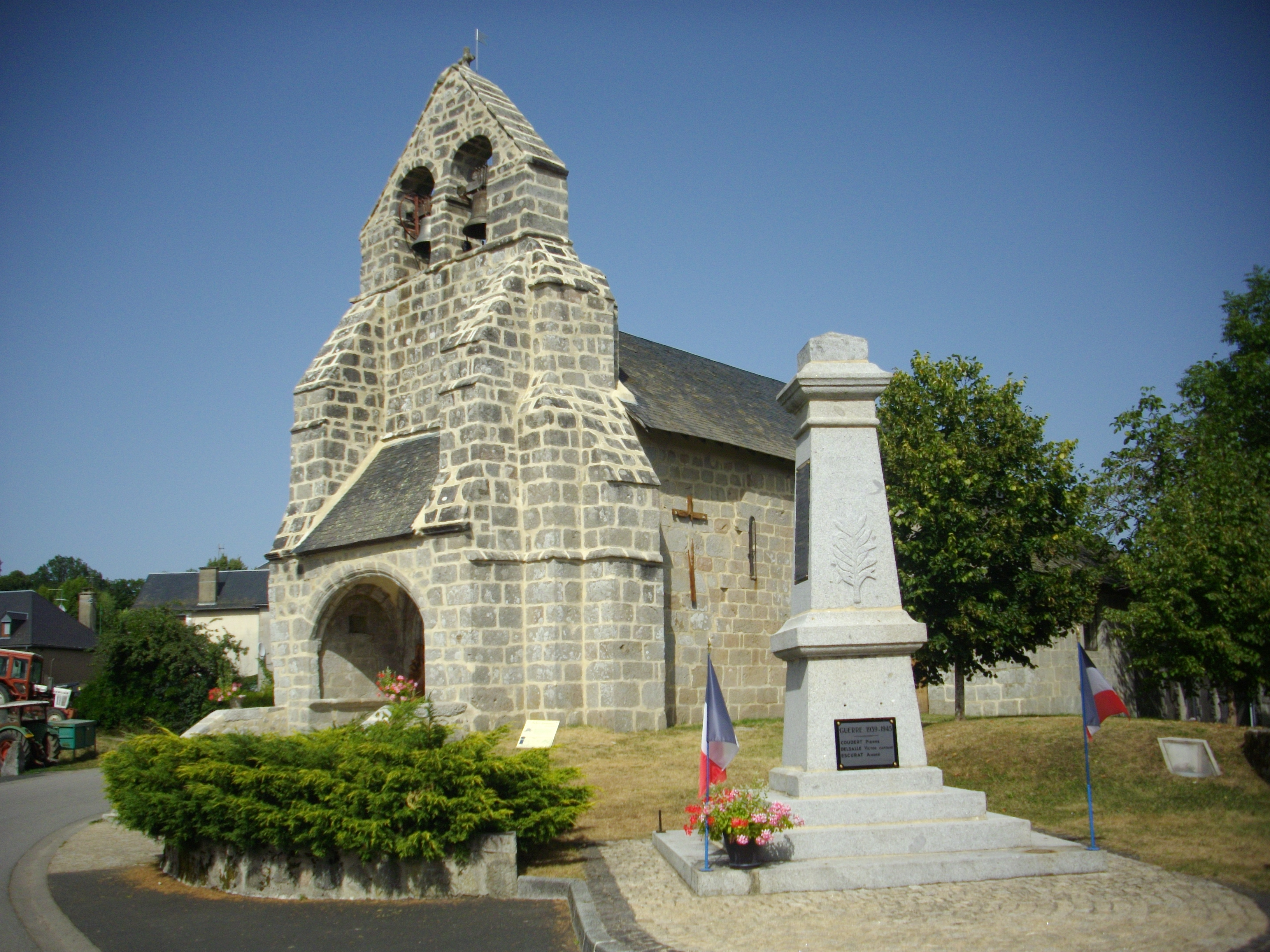 Saint Sylvain church of Chirac-Bellevue (Corrèze, France)